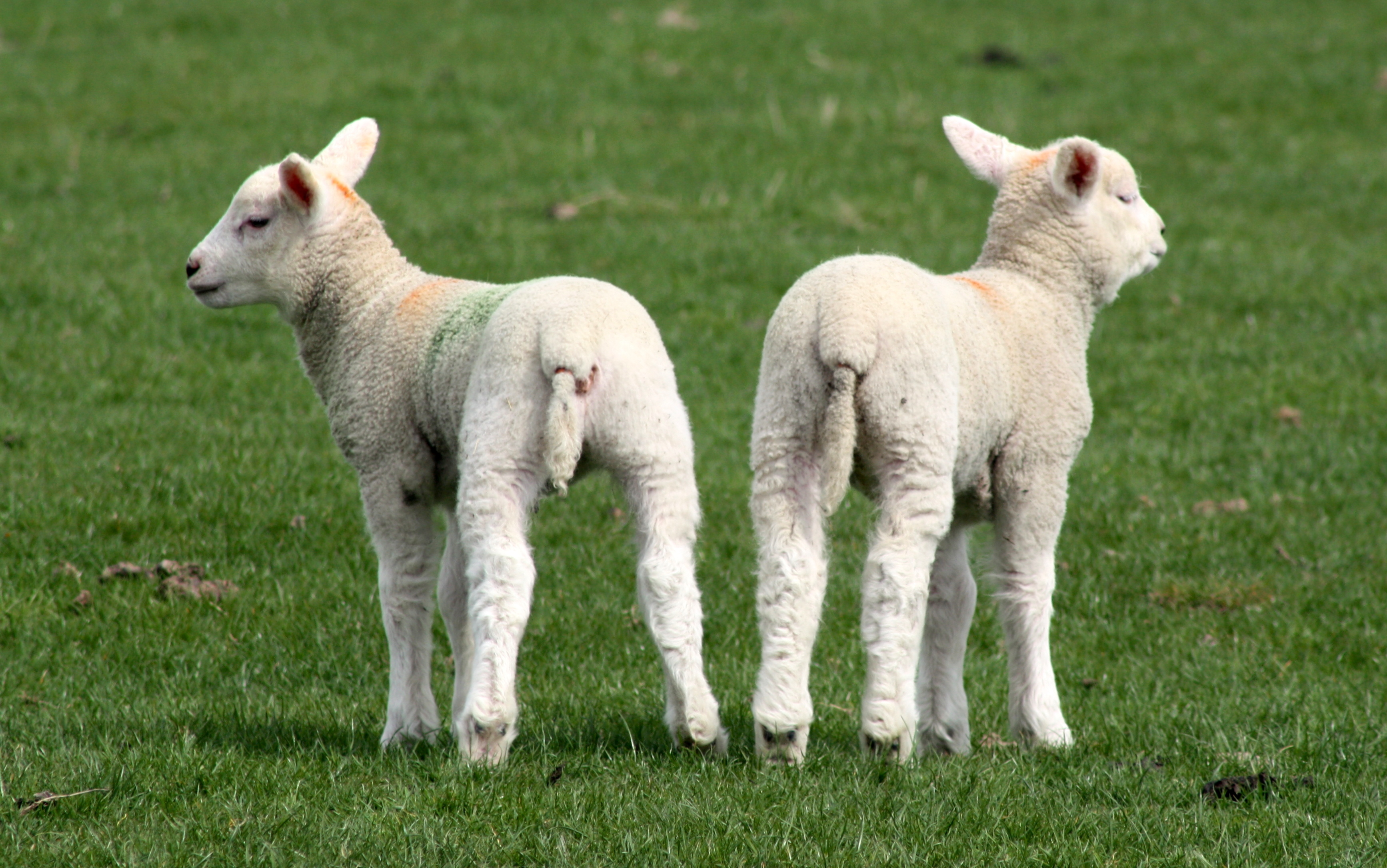 A cropped version of the original, File:Two lambs rubber ring tail docking.jpg. Two lambs in a field in Romney Marsh, Kent in the process of having their tails docked by the rubber ring method. The rubber ring is tight enough to cut off blood flow to the lower portion of the lamb's tail, which will eventually atrophy and fall off. Tails are commonly docked in agriculture in order to aid in disease prevention and to reduce animal maintenance.